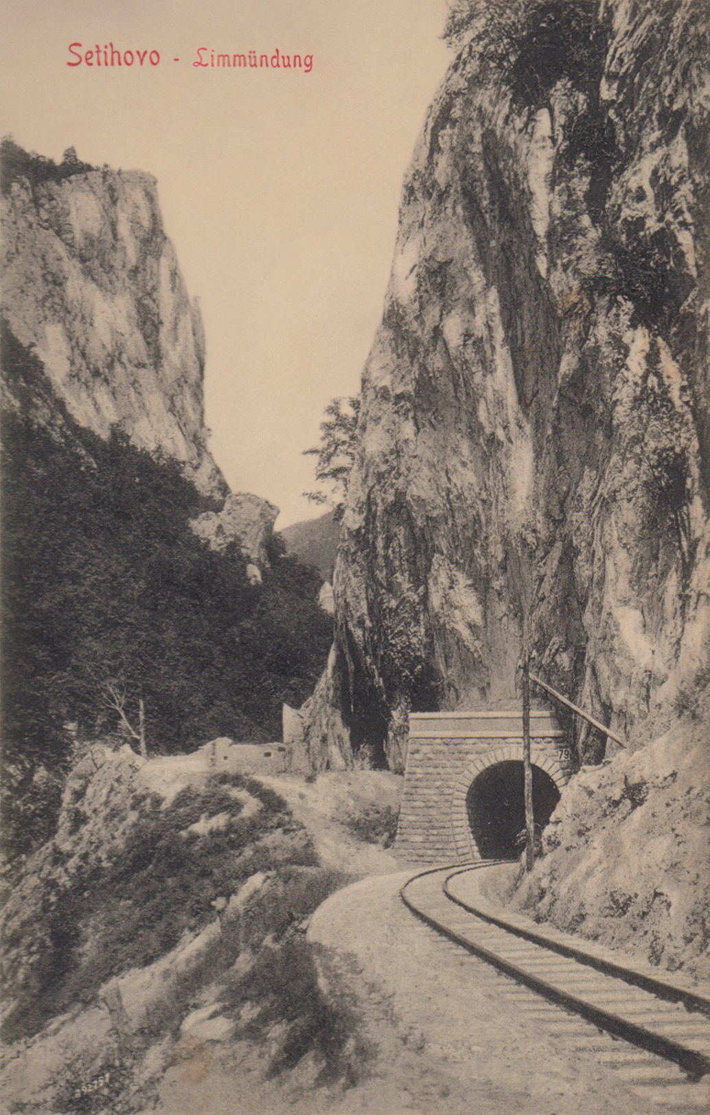 The southern portal of the tunnel No. 79 located in the gorge of the Lim River as seen in this downstream view towards Most na Drini